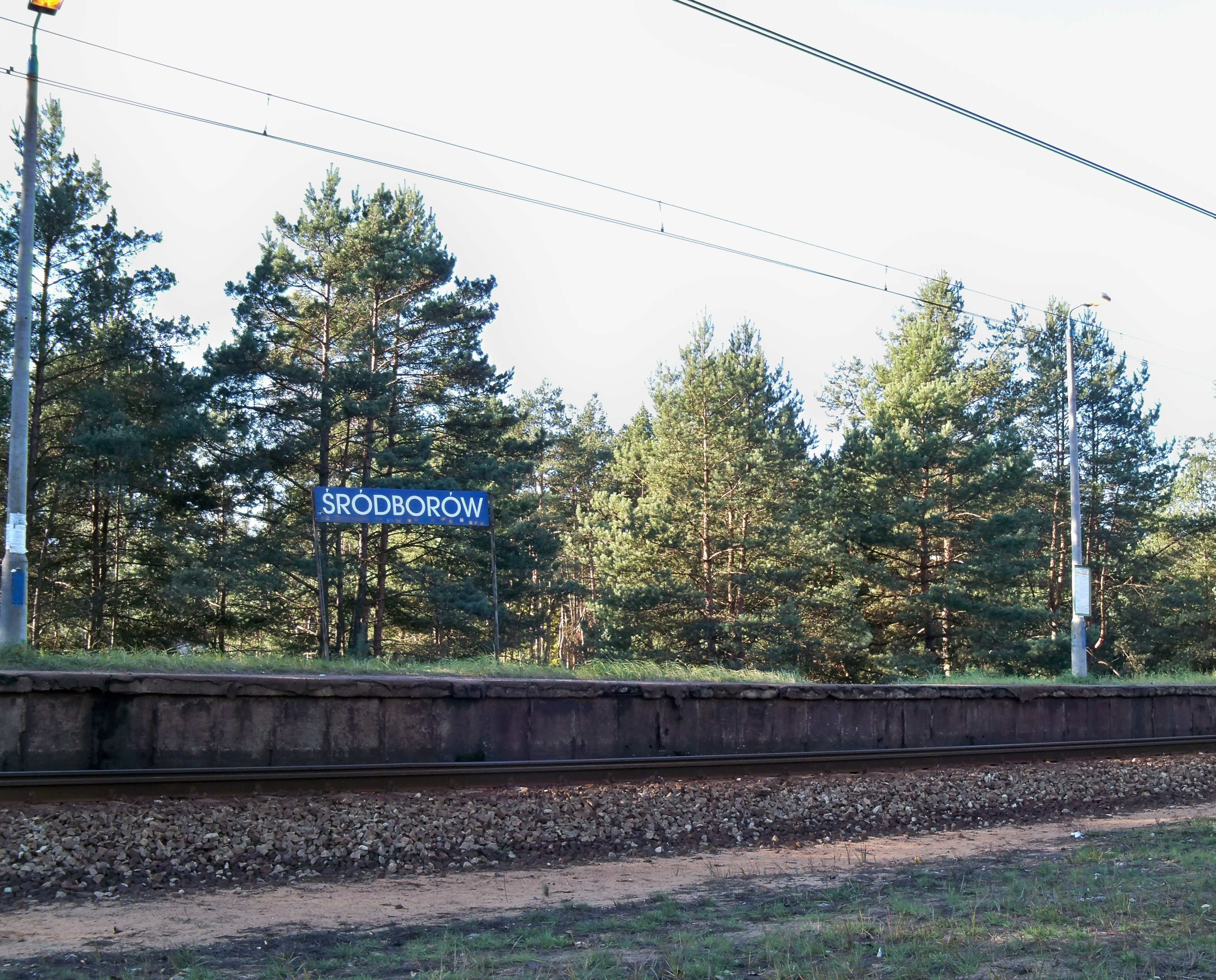 Train stop in Otwock-Śródborów near Warsaw. Poland.